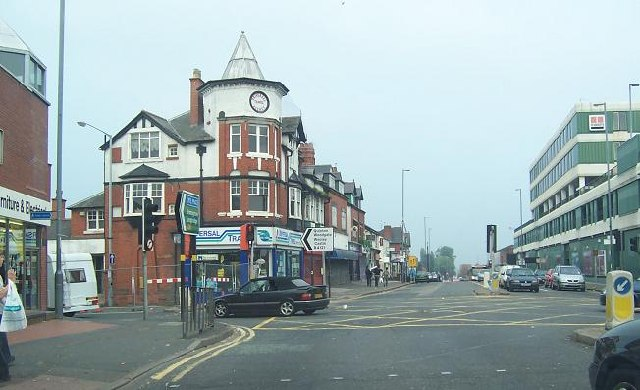 Downtown Northfield. Looking north up the A38, the gorgeous Grosvenor Shopping Centre to the right.